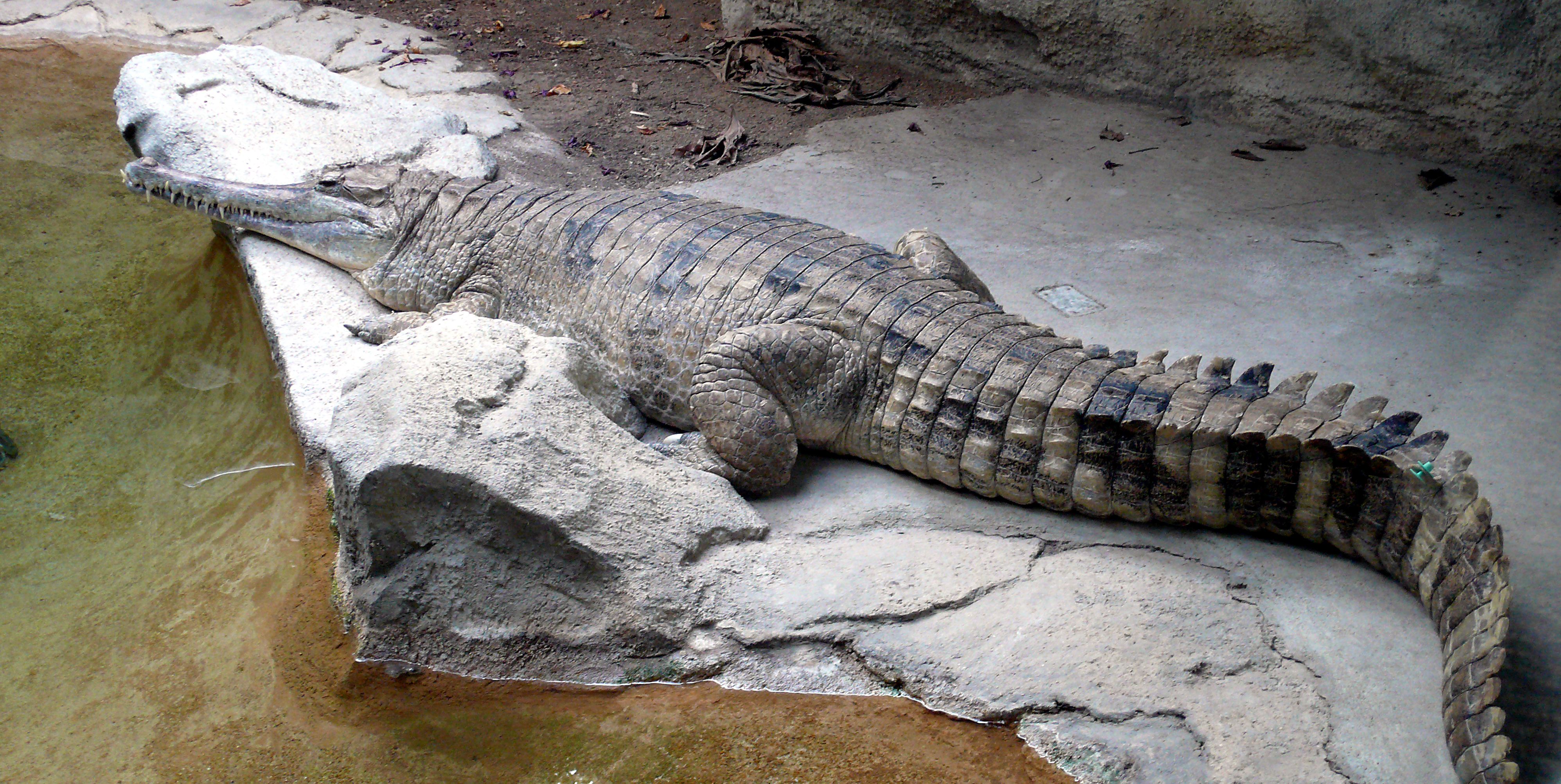 False gharial Tomistoma schlegelii